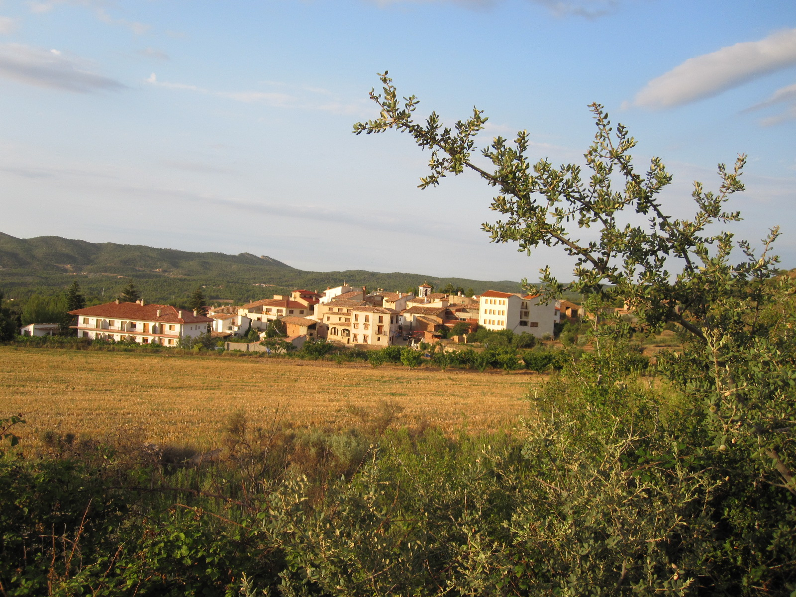 Las Planas de Castellote village. Panoramic view from the road to "Los Alagones".